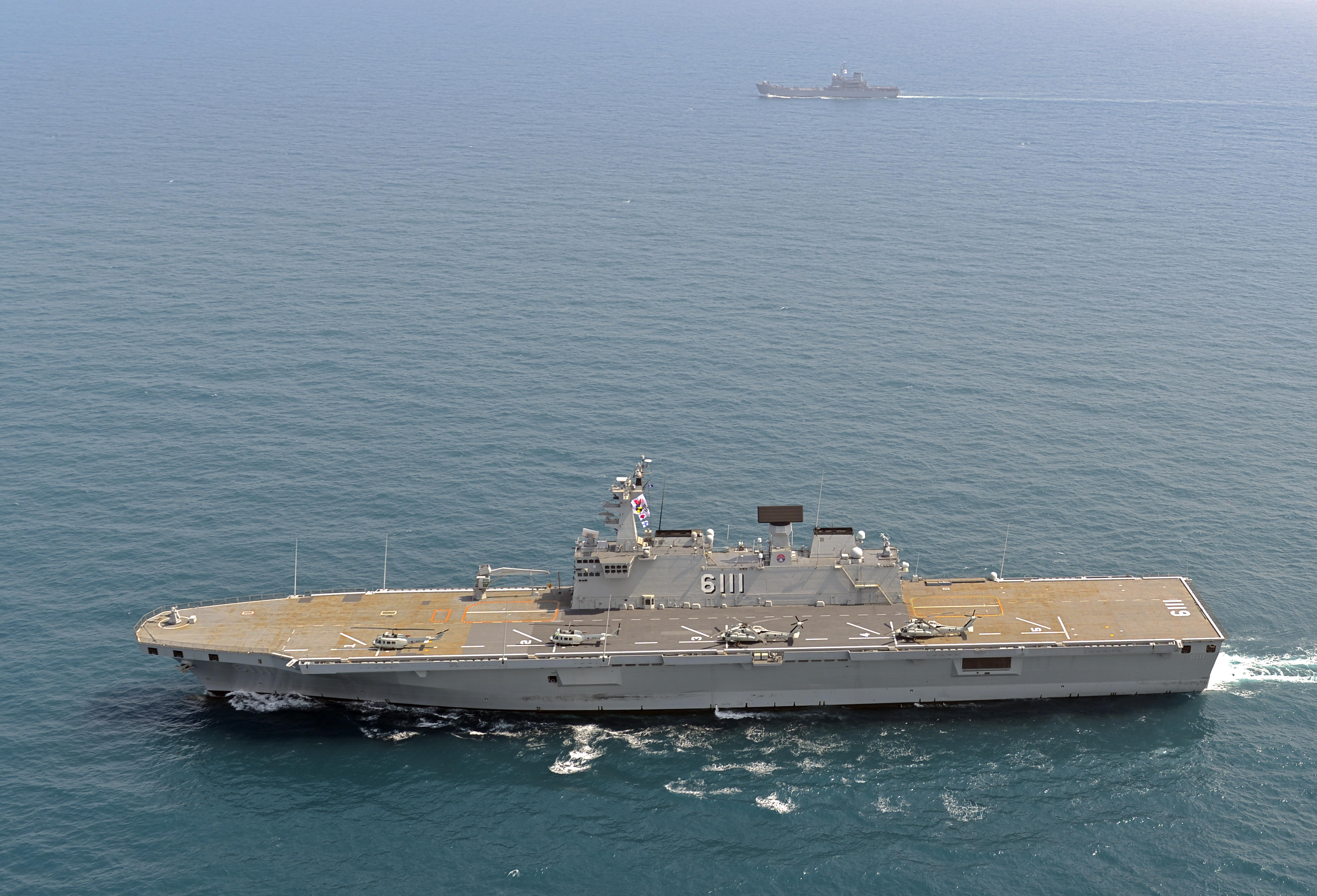 The Republic of Korea amphibious assault ship ROKS Dokdo (LPH 6111), assigned to Commander, Flotilla (COMFLOT) 5, transits the East China Sea during a photo exercise as part of "Exercise Ssang Yong". The annual combined exercise is conducted by Navy and Marine forces with the Republic of Korea in order to strengthen interoperability across the range of military operations.